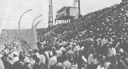 Sector de prensa y plateas del estadio de Colón en un partido ante River Plate el 10 de octubre de 1968.